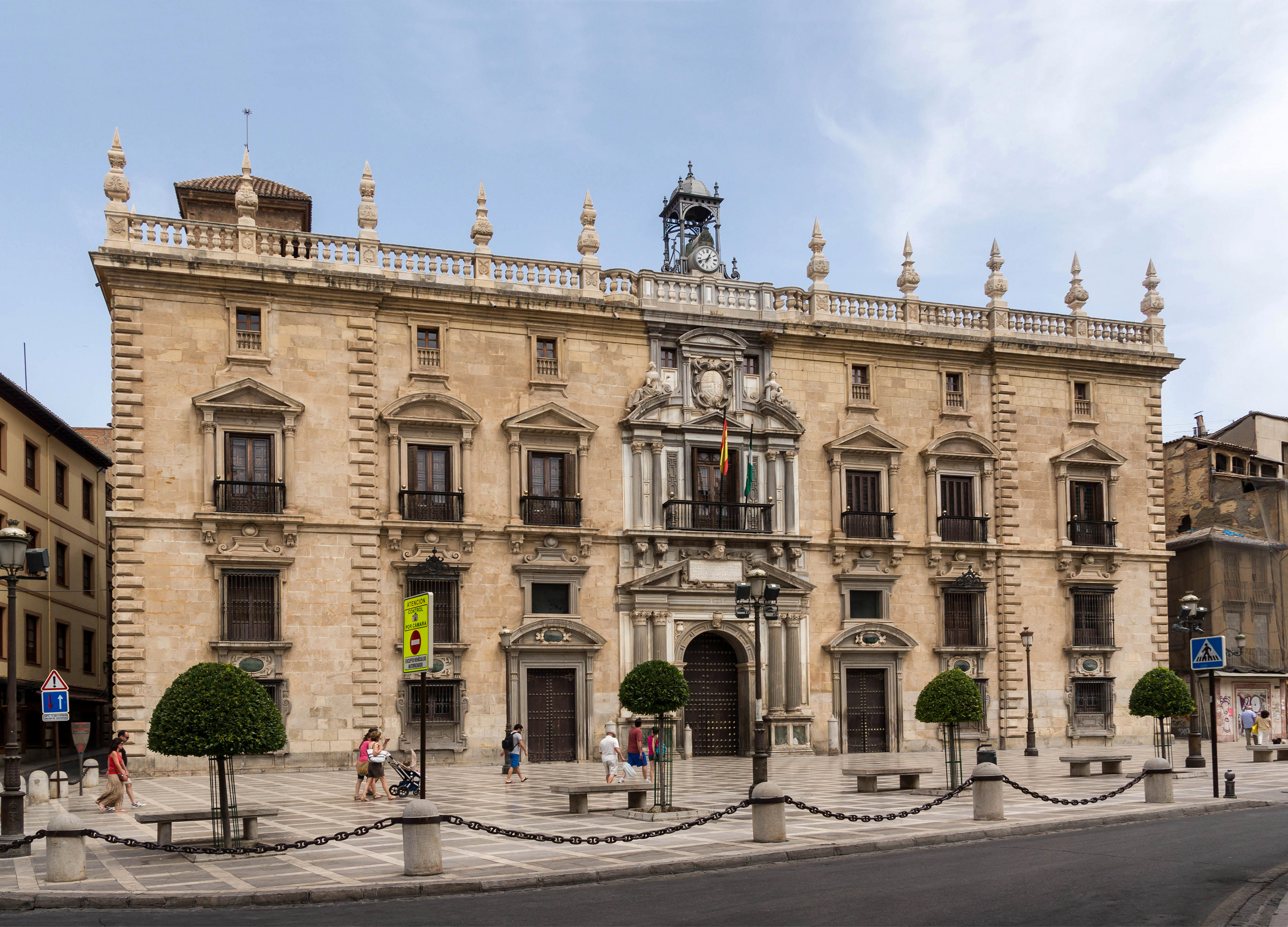 The Court House (Real Chancilleria), 16th-century, Granada, Spain.